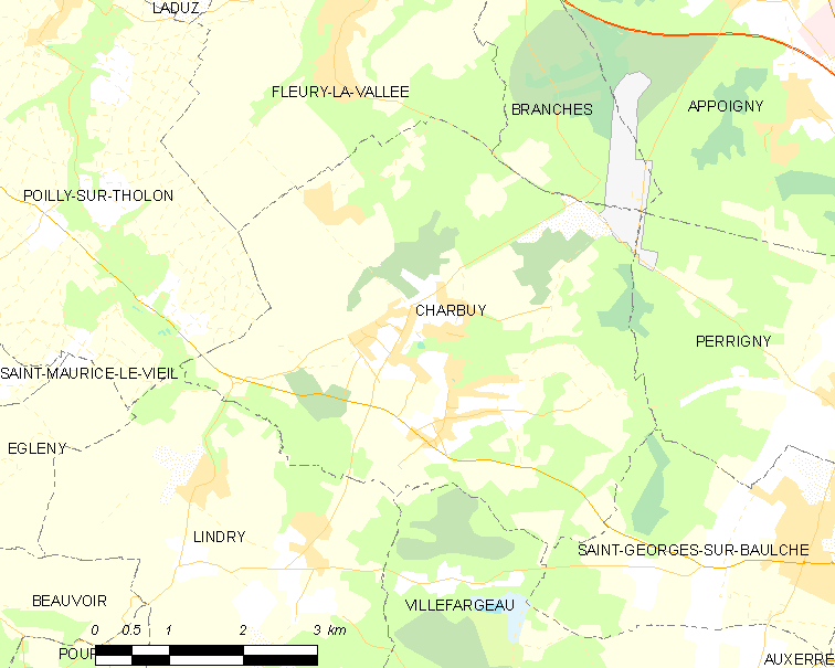 Map of French municipality Charbuy